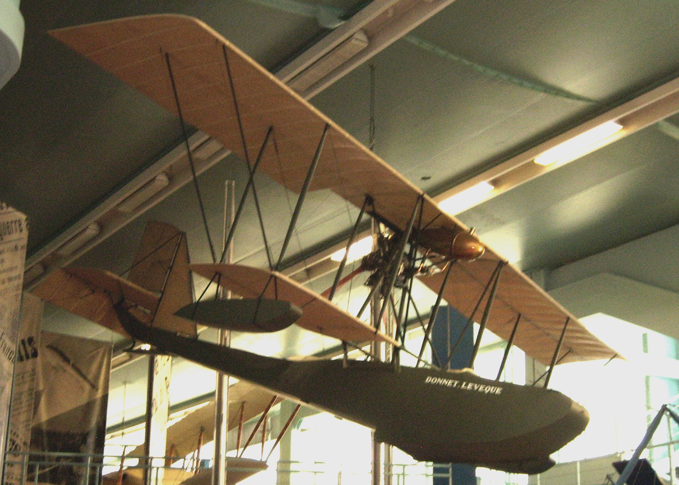 Donnet Leveuqe A flying boat preserved at the Musee de l'Air et de 'Espace Paris le Bourget